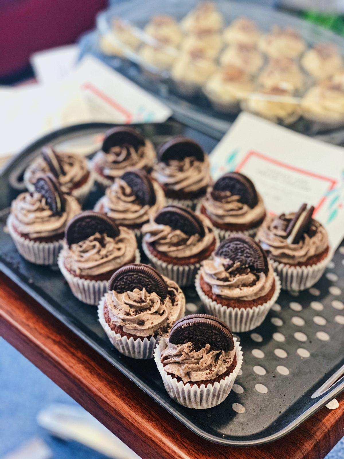 delicious